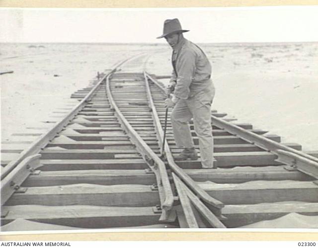 photo of an Australian soldier in the Egyptian desert building a railway during WW2